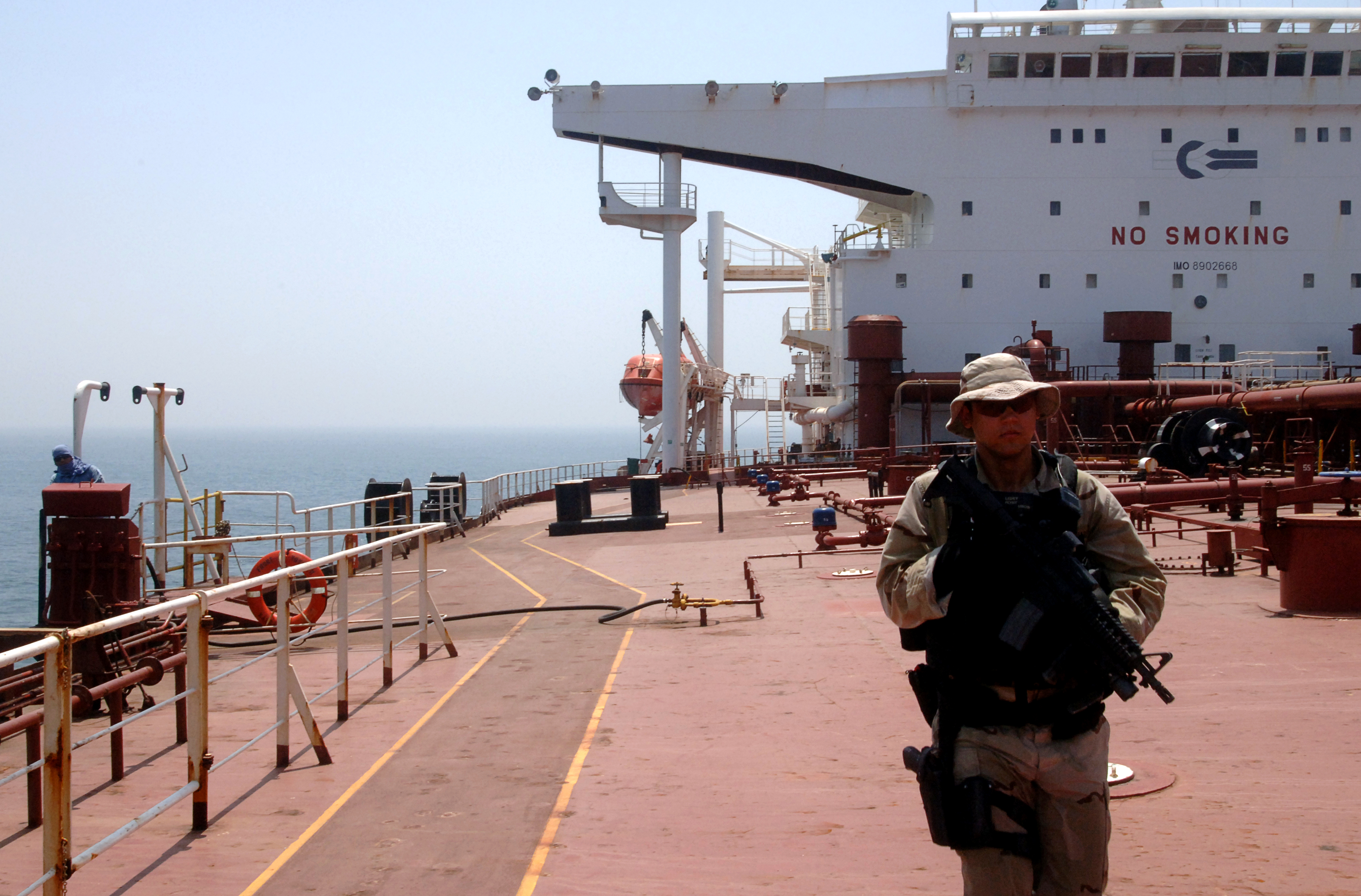 Petty Officer 3rd Class William J. Burke performs a security sweep aboard a tanker ship in the North Arabian Gulf. Burke a machinery technician is part of Law Enforcement Detachment 106, which is deployed in the NAG to help train Iraqi Navy and Marine personnel in boarding procedures and tactics.